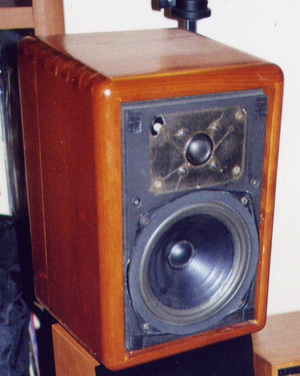 Cizek KA-1 Classic Speaker